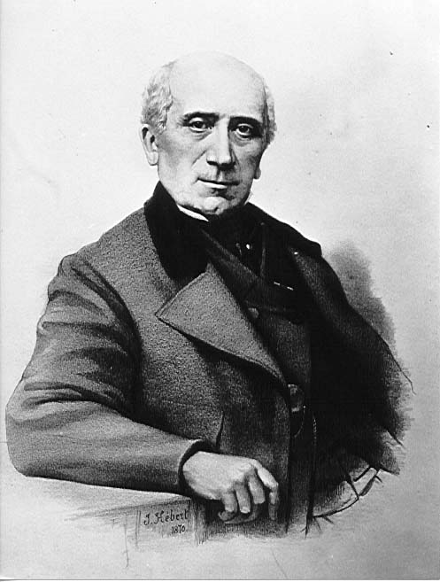 Théodore Maunoir (1806–1869), Swiss physician from Geneva and co-founder of the International Committee of the Red Cross